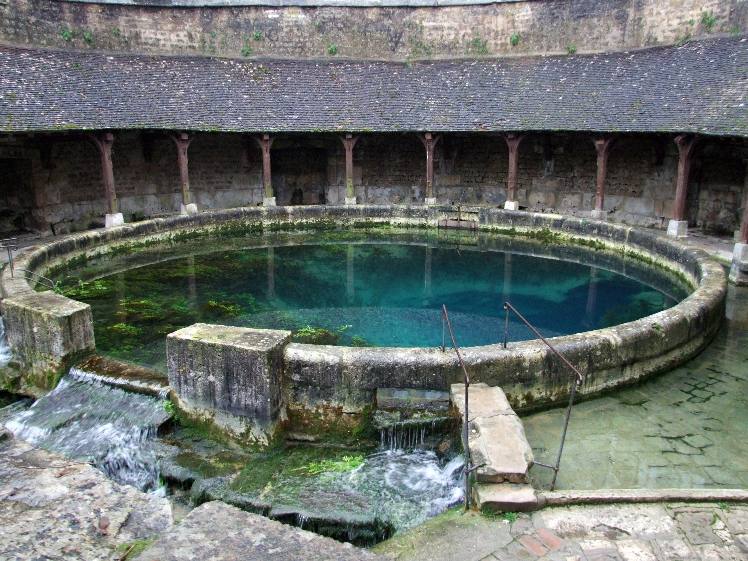 Tonnerre, Burgundy, FRANCE